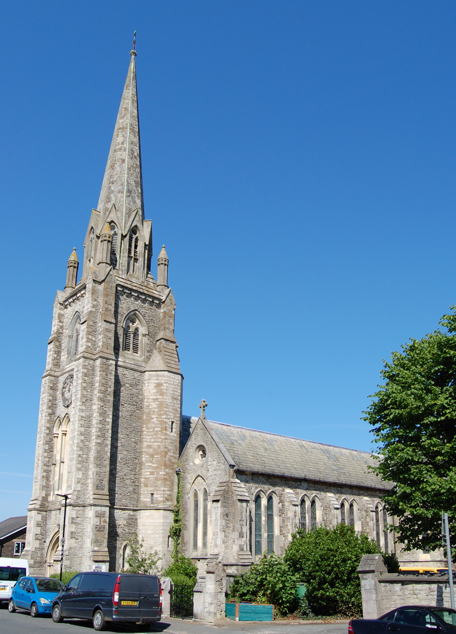 The former Holy Trinity Church, Dover Street, Ryde, Isle of Wight, England. Designed in 1841–46 by local architect Thomas Hellyer. The spire is a landmark for miles around.